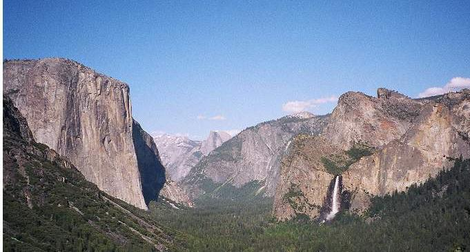 Yosemite Valley from Tunnel View in Yosemite National Park